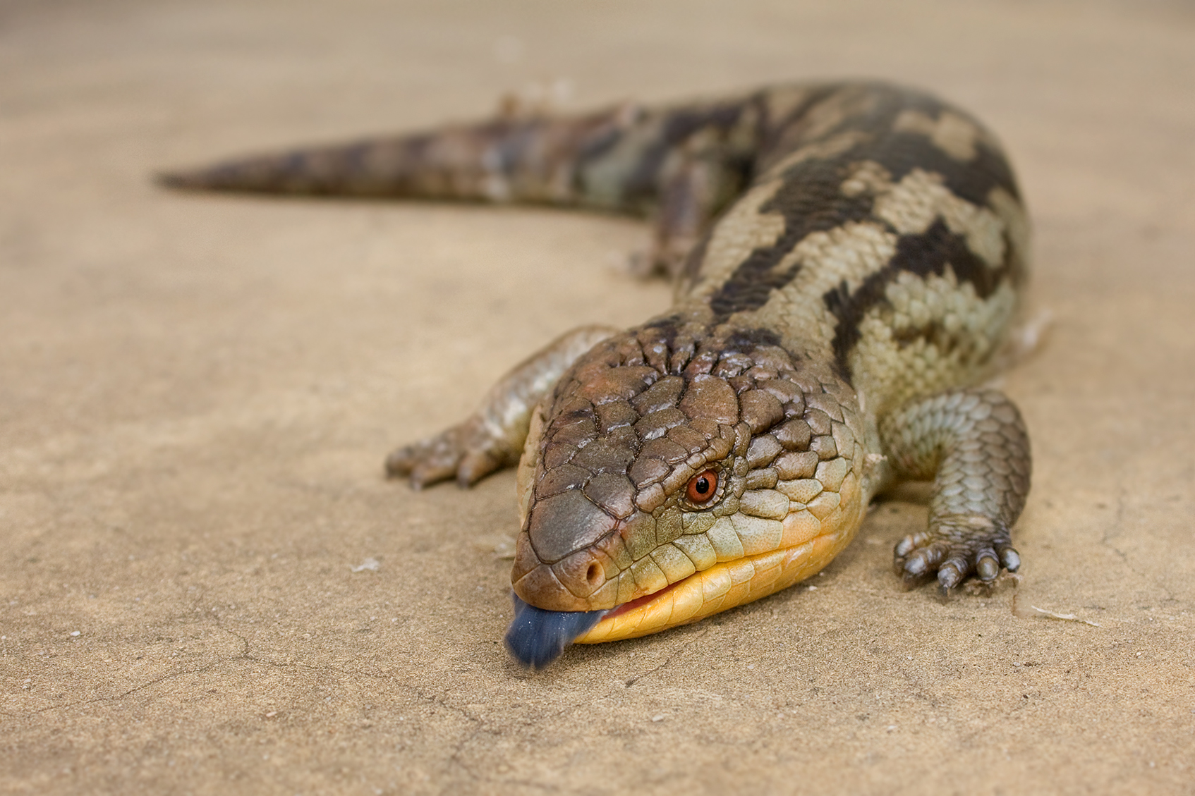 Blotched Blue-tongued Lizard (Tiliqua nigrolutea), Austin's Ferry, Tasmania, Australia